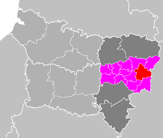 Maps of arrondissements and cantons of France: Arrondissement de Laon